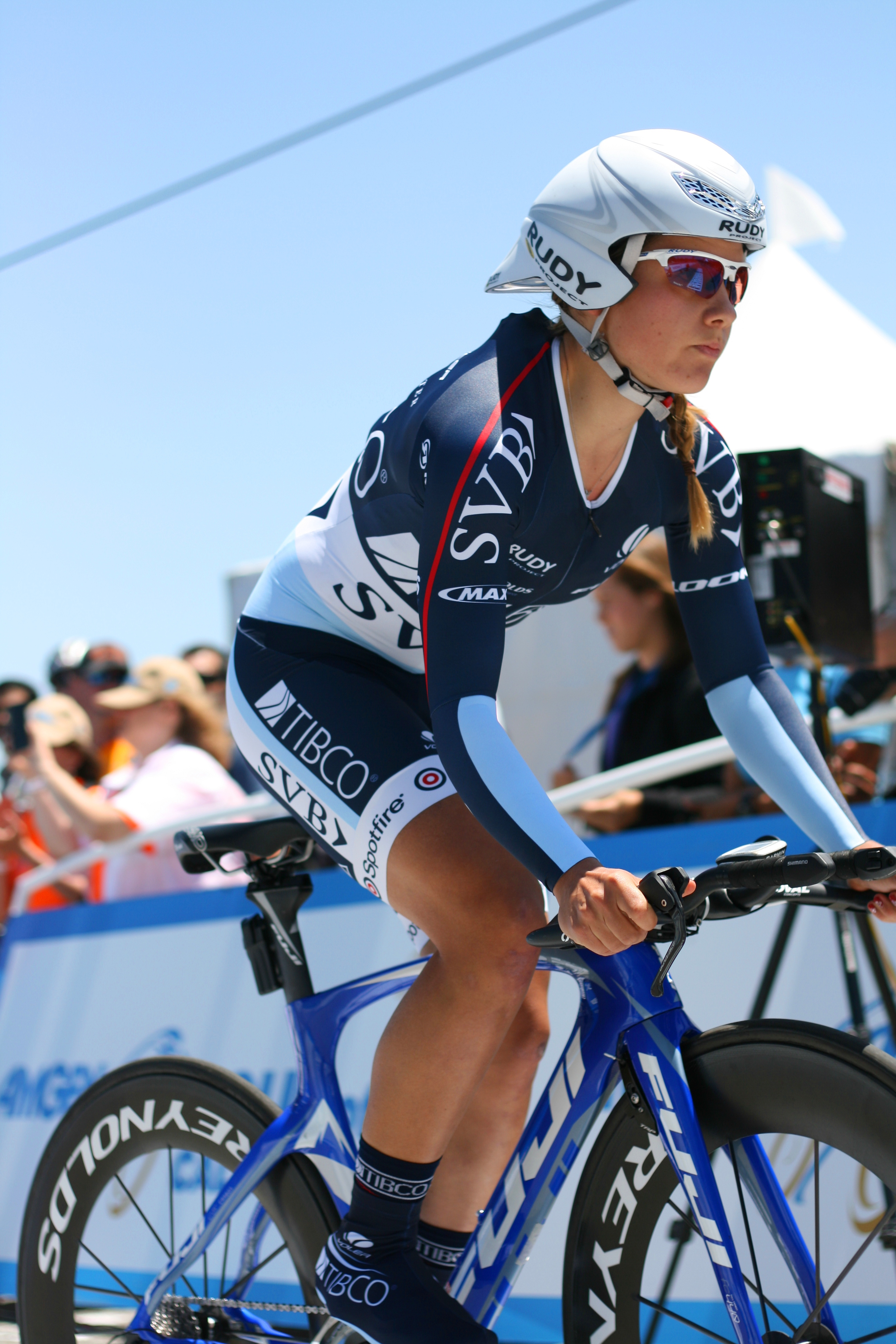 Amgen Tour of California 2013 San Jose Women's Individual Time Trial Friday May 17 2013 Jasmin Glaesser at the race start on Bailey Road.